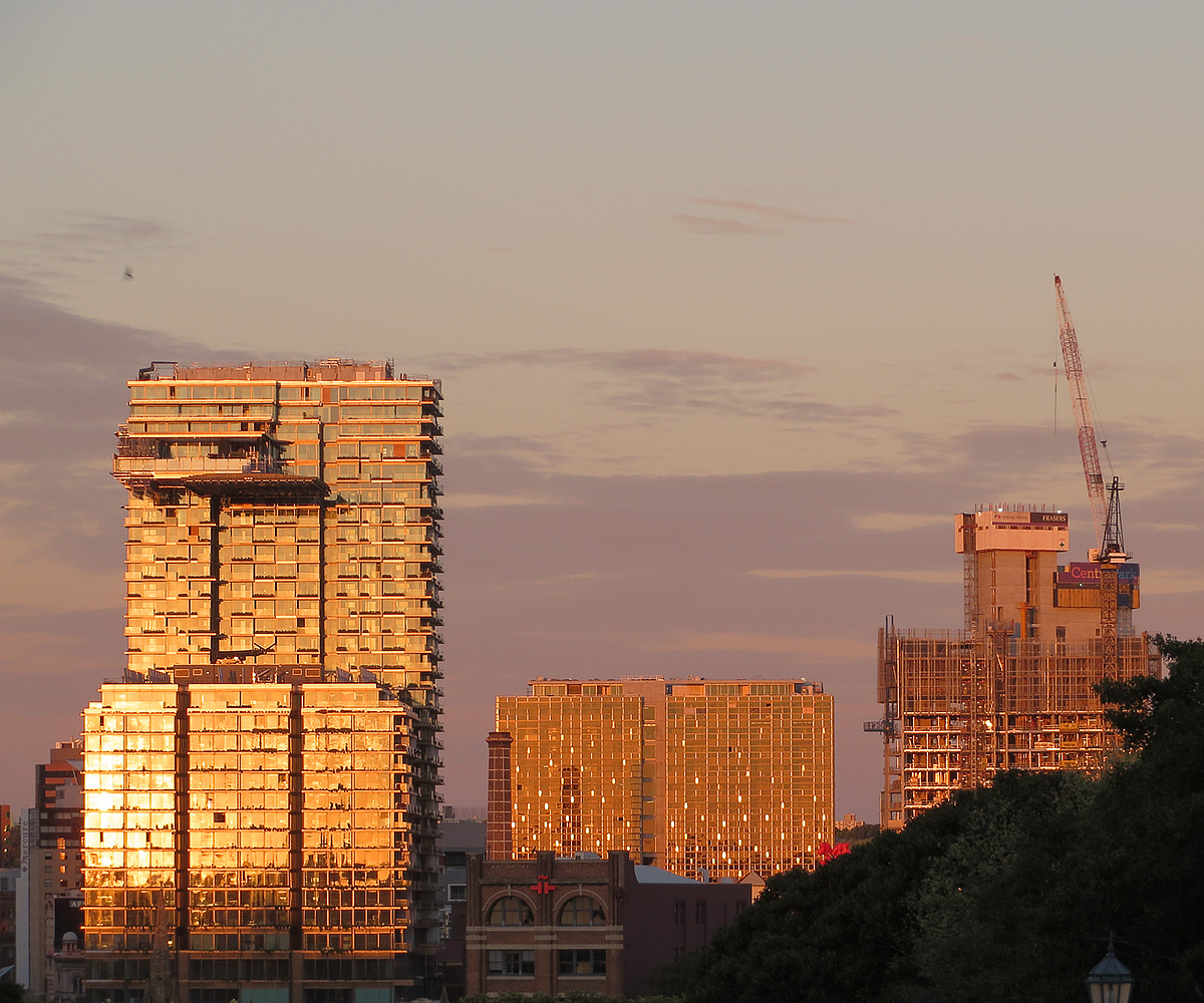 Broadway of Sydney